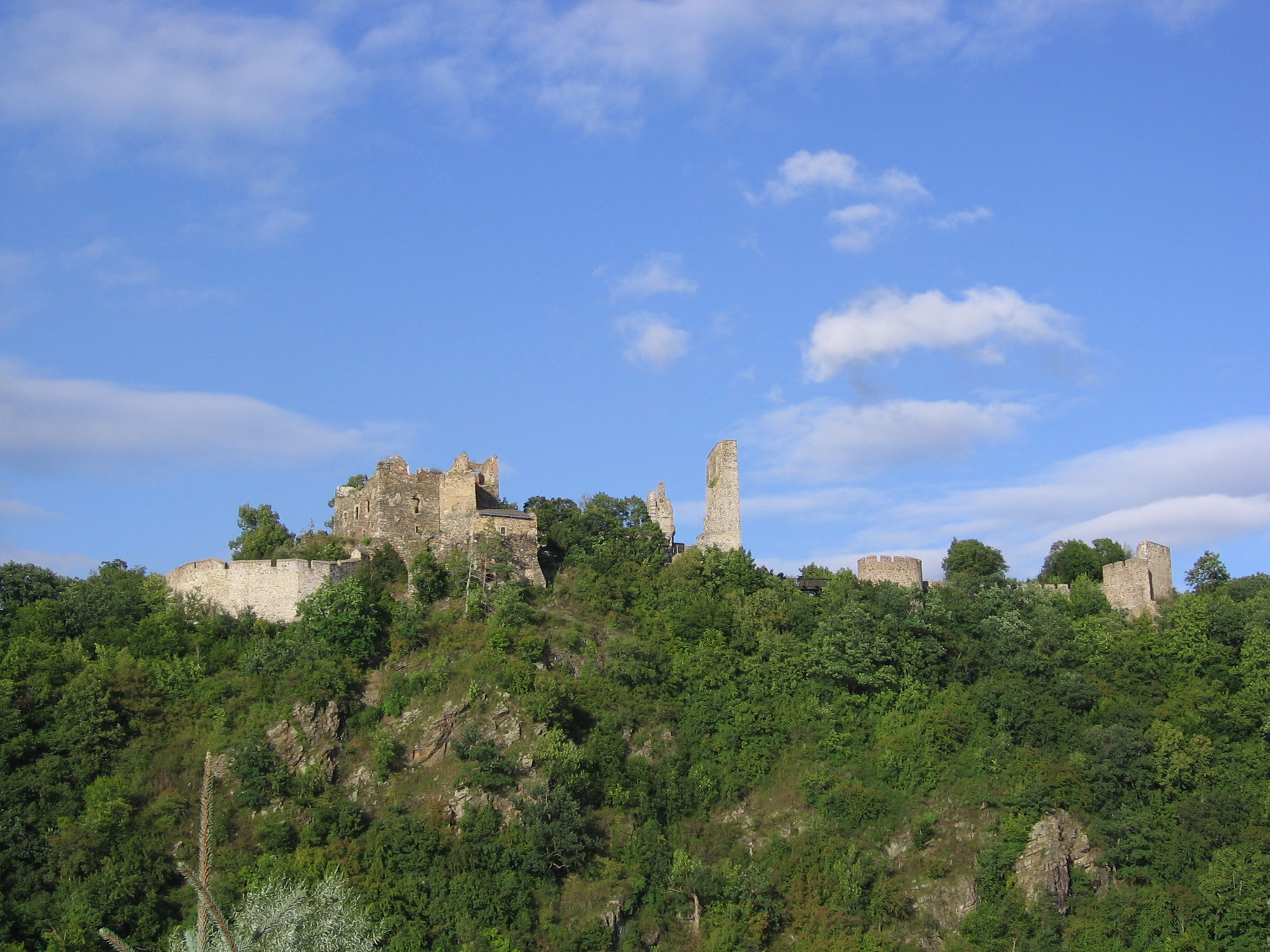 ruins of the castle Cornštejn near Vranov nad Dyjí, Czech Republic